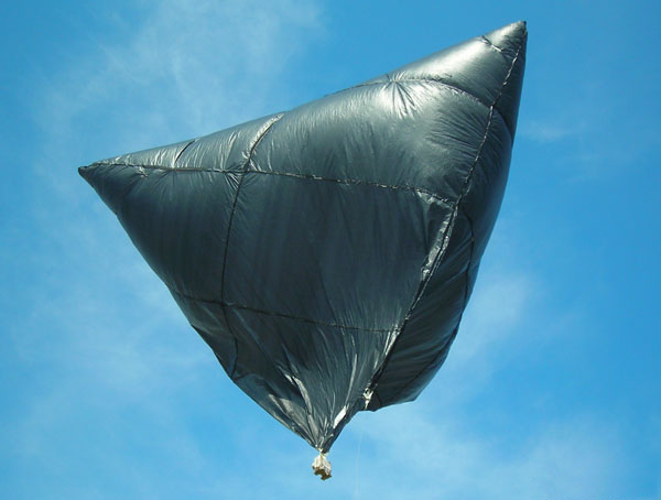 Photo by Catman, Webmaster